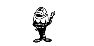 Image of the Big Fish Hungry mascot used by the defunct Red Barn restaurant chain.